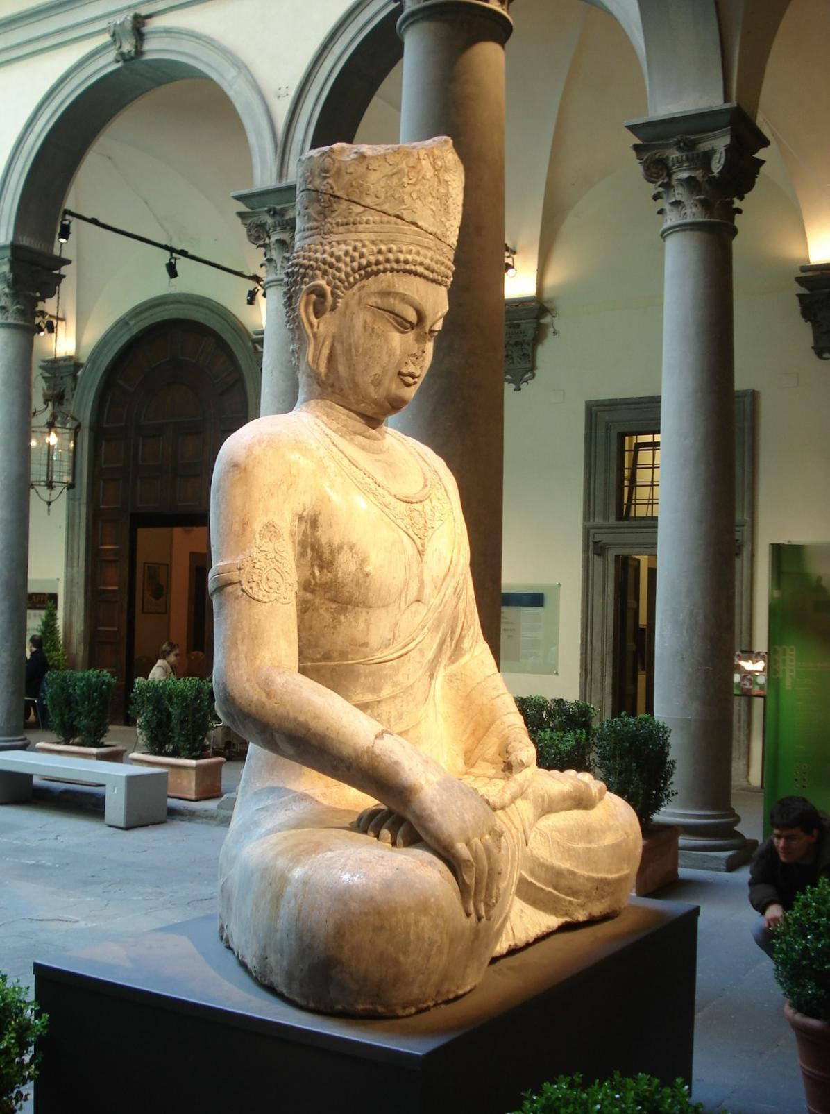 Statue of Maitreya (240 cm tall), sculpted during the chinese Empress Wu Zetian reign (625-705), and originally located in the grottoes of Longmen. The picture was taken at palazzo Strozzi in Florence, where the statue was during the exhibition "China at the Court of the Emperors: Unknown Masterpieces from Han Tradition to Tang Elegance (25-907)" on Tang Dynasty art.